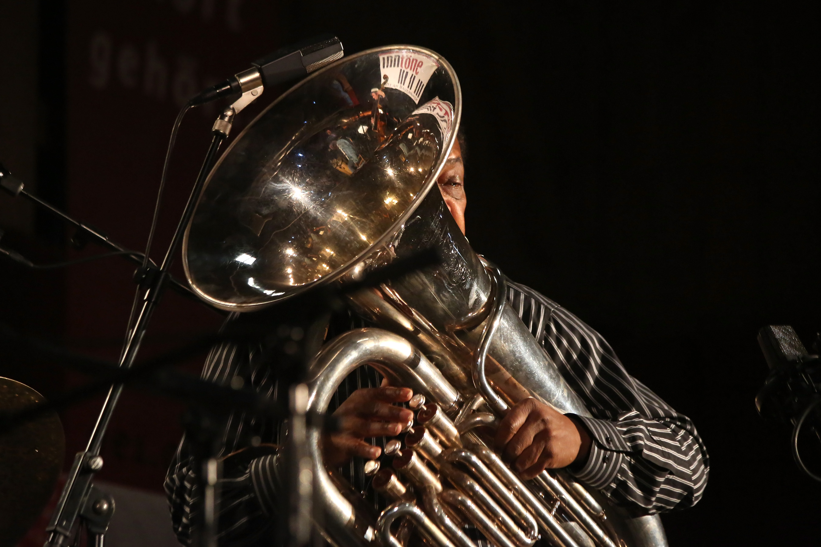 Mansur Scott (voc, perc), Howard Johnson (bar, tub, fl), Oliver Kent (p), Wolfram Derschmidt (b), Mark Johnson (dr) - INNtöne Jazzfestival (Diersbach, Upper Austria)